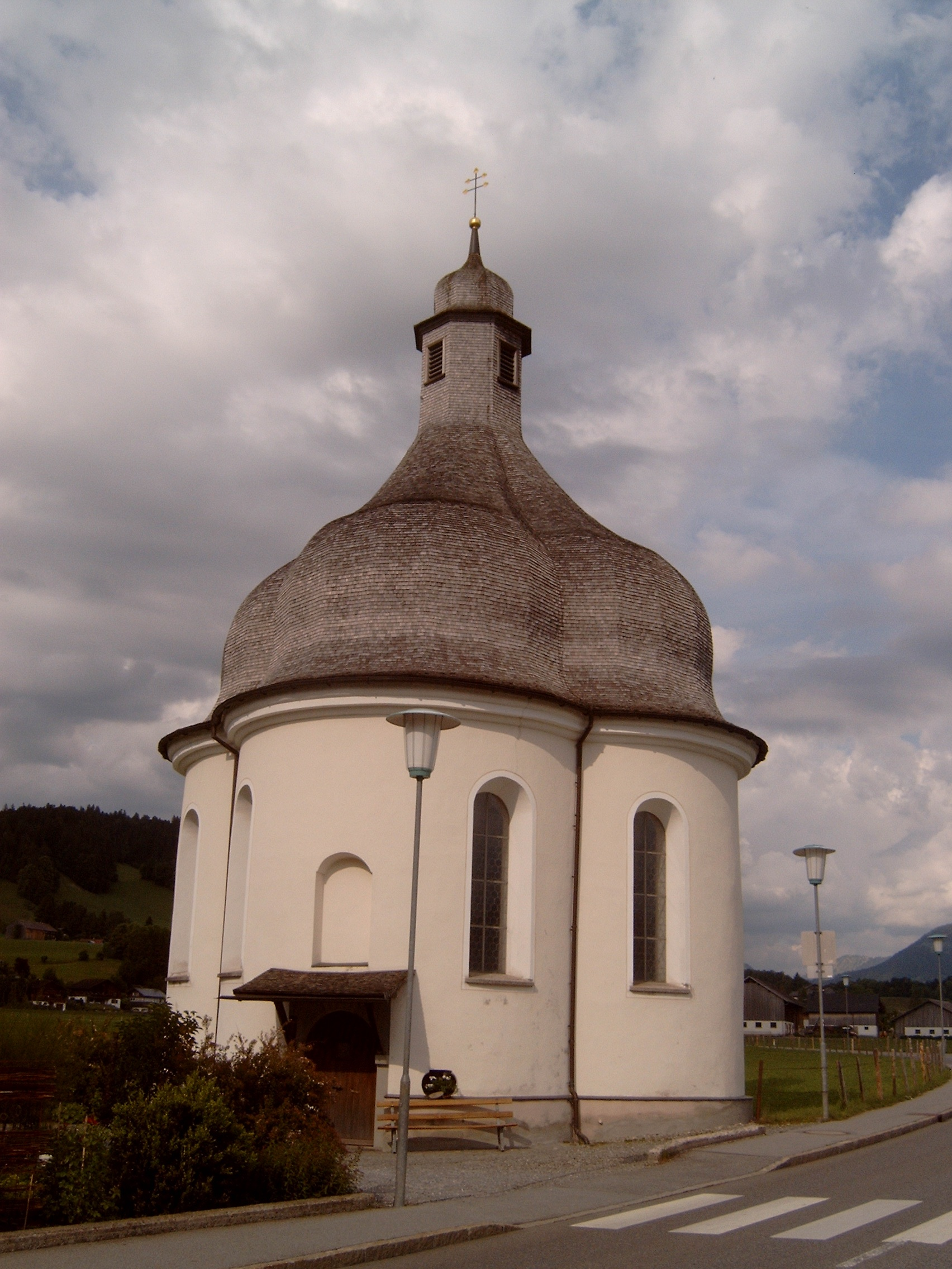 Lingenau, chapel: Sankt Anna Kapelle